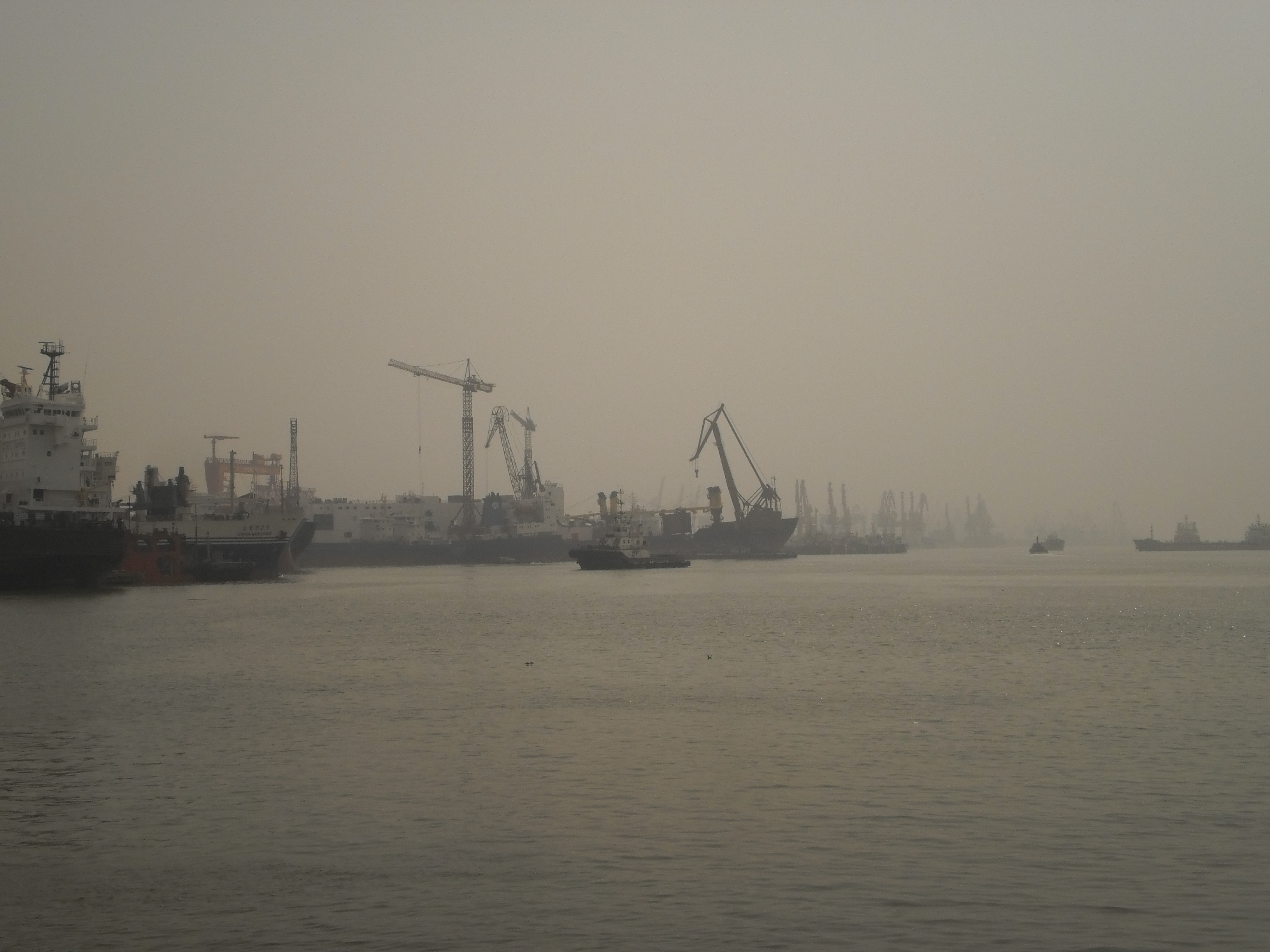 Hazy conditions in an early afternoon at the Tianjin Port. As with most of North China, Tianjin Port suffers from very frequent pollution haze, affecting visibility and air quality.